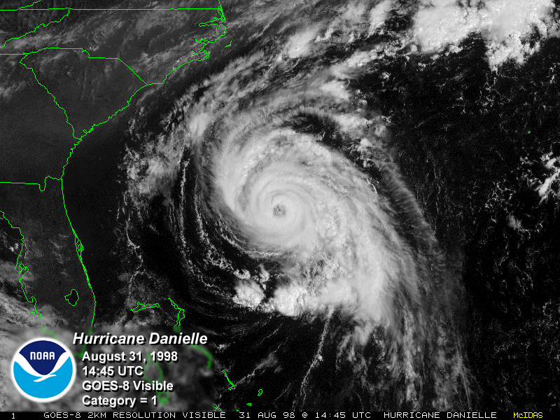 Danielle at Category 2 intensity off the southeast United States coastline.